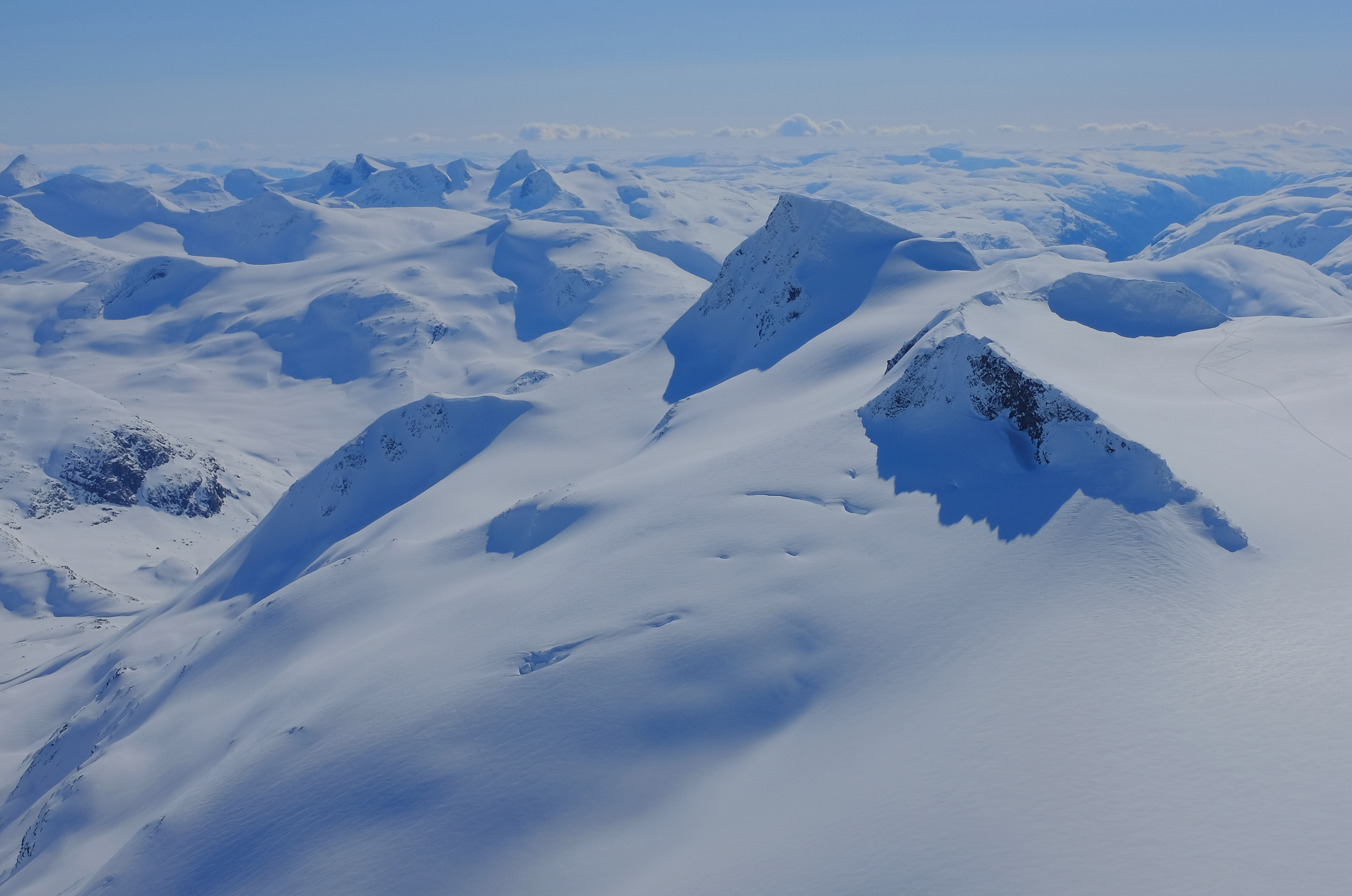 Gravdalstinden in Jotunheimen National Park. It marks the border between Lom Municipality in Oppland and Luster in Sogn og Fjordane, Norway. Søre Smørstabbtindan in Lom Municipality in Oppland.